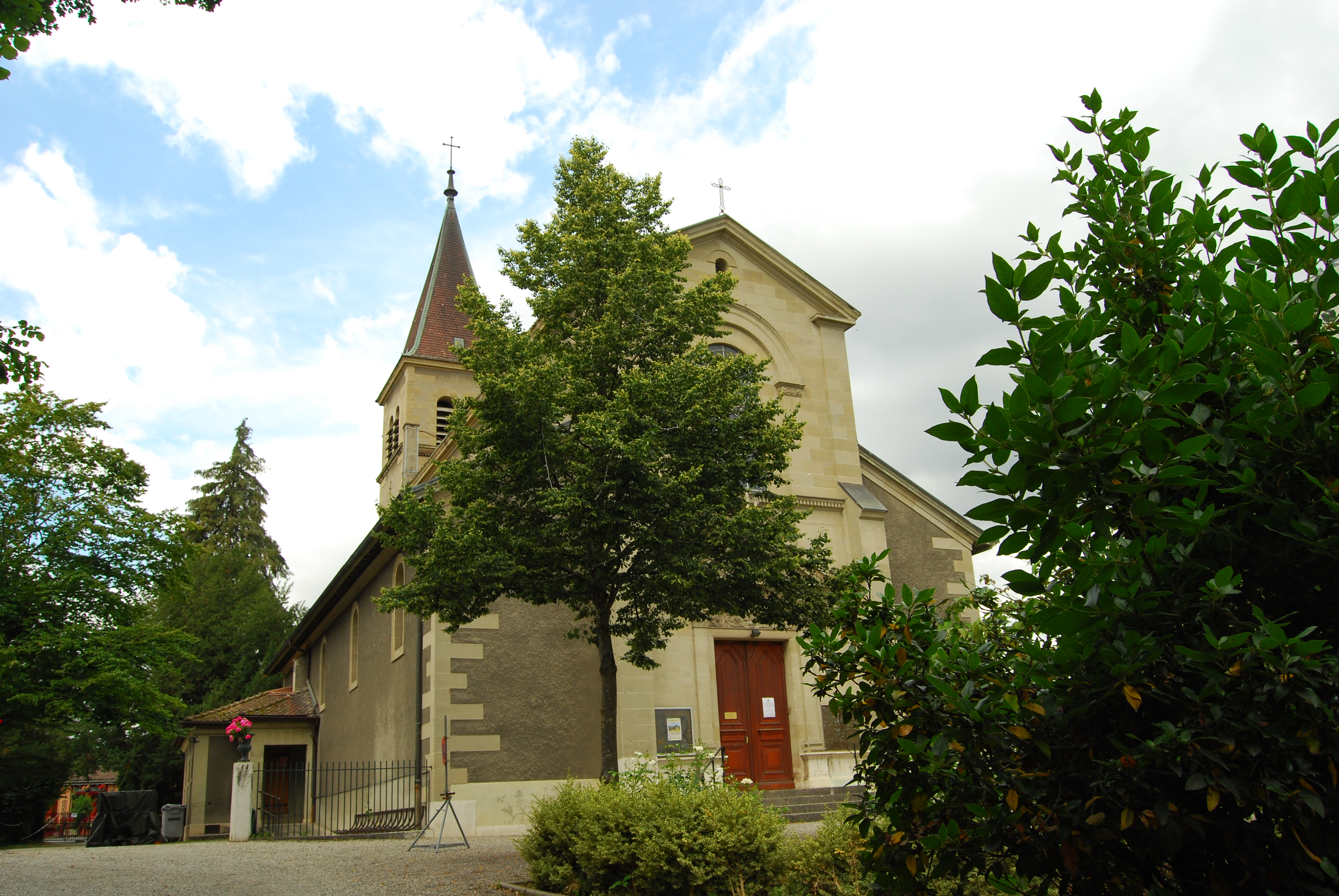 Catholic Church of Versoix, canton of Geneva, Switzerland